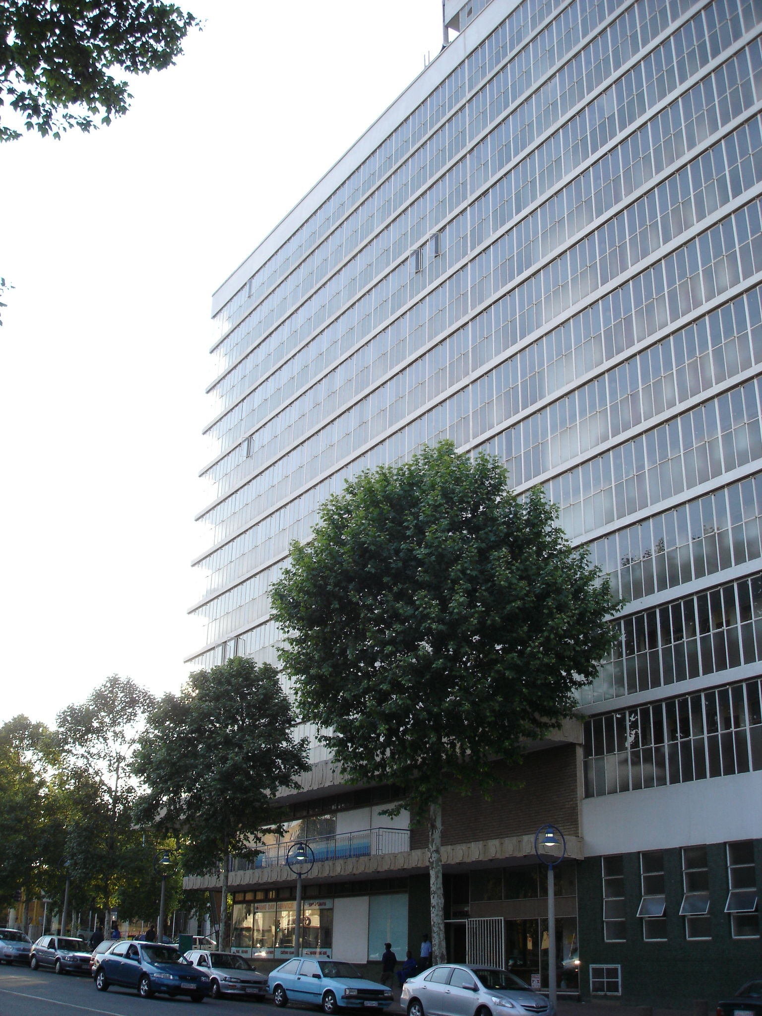 Royal York Building in Alberton, Gauteng, South Africa